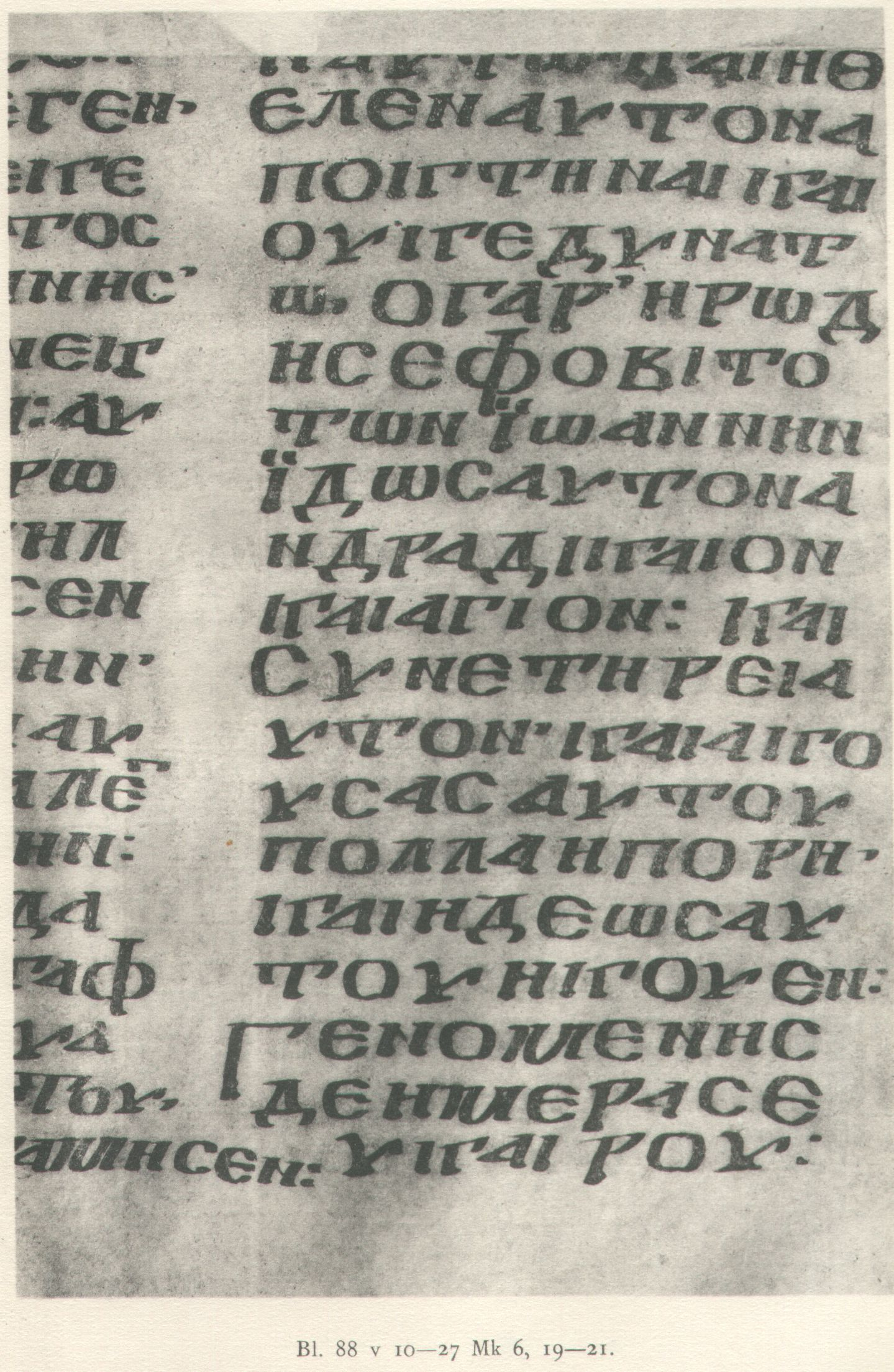 Codex Coridethi, page from Mk 6,19-21